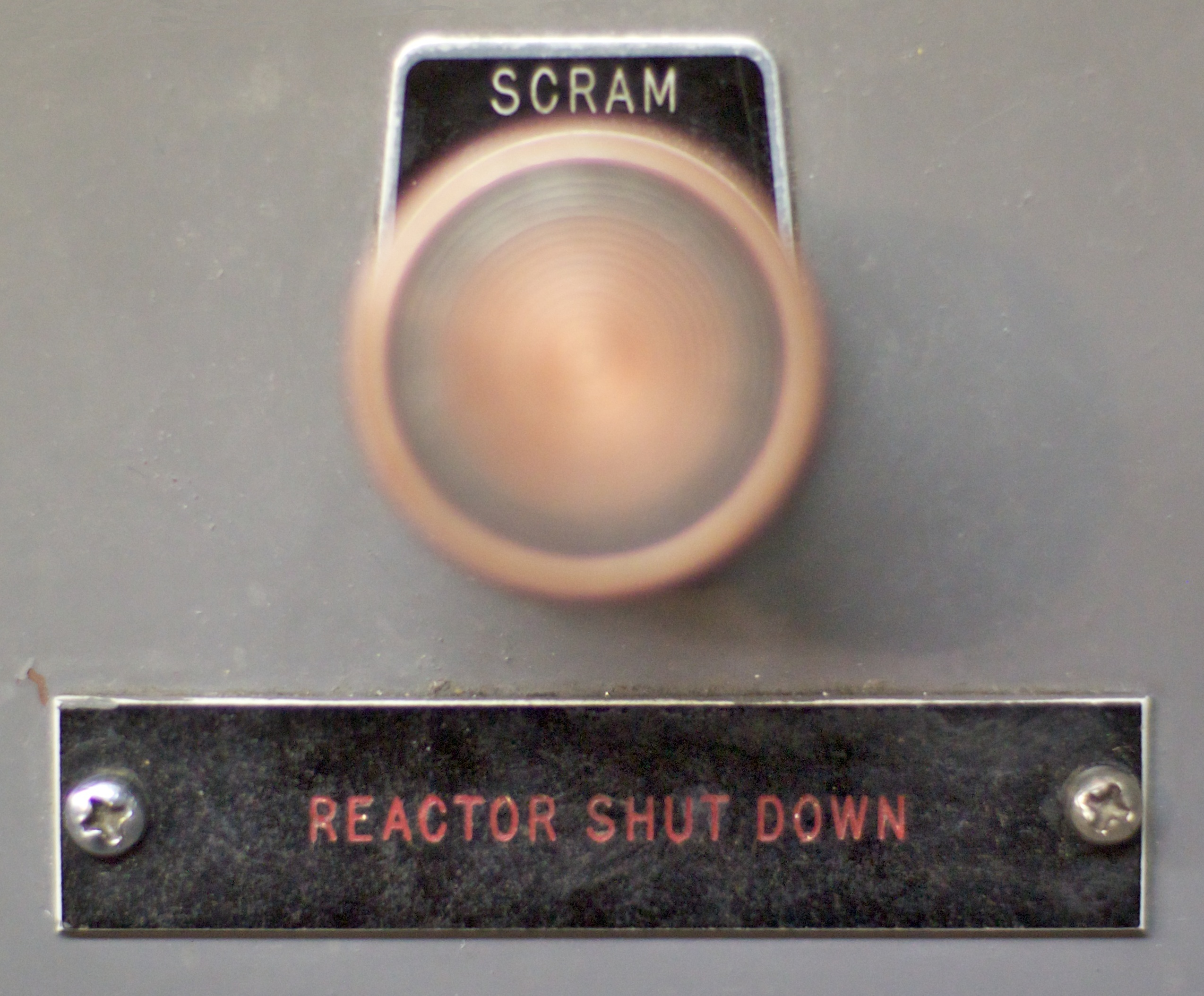 Visit to the Experimental Breeder Reactor No. 1 (EBR-I) Atomic Museum. This was where the first generation of usable electricity by nuclear power was done back in 1951.